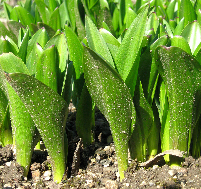 Autumn Crocus (Colcium autumnale L.) in Spring